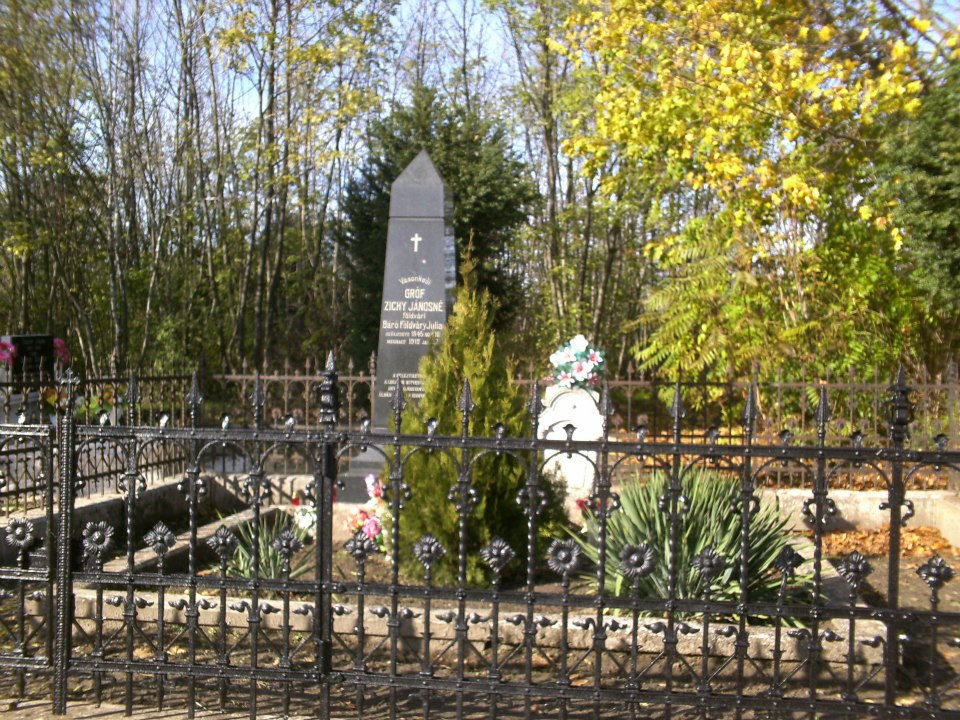 The tomb of János, Jánosné and Kázmér Zichy in Zichyújfalu